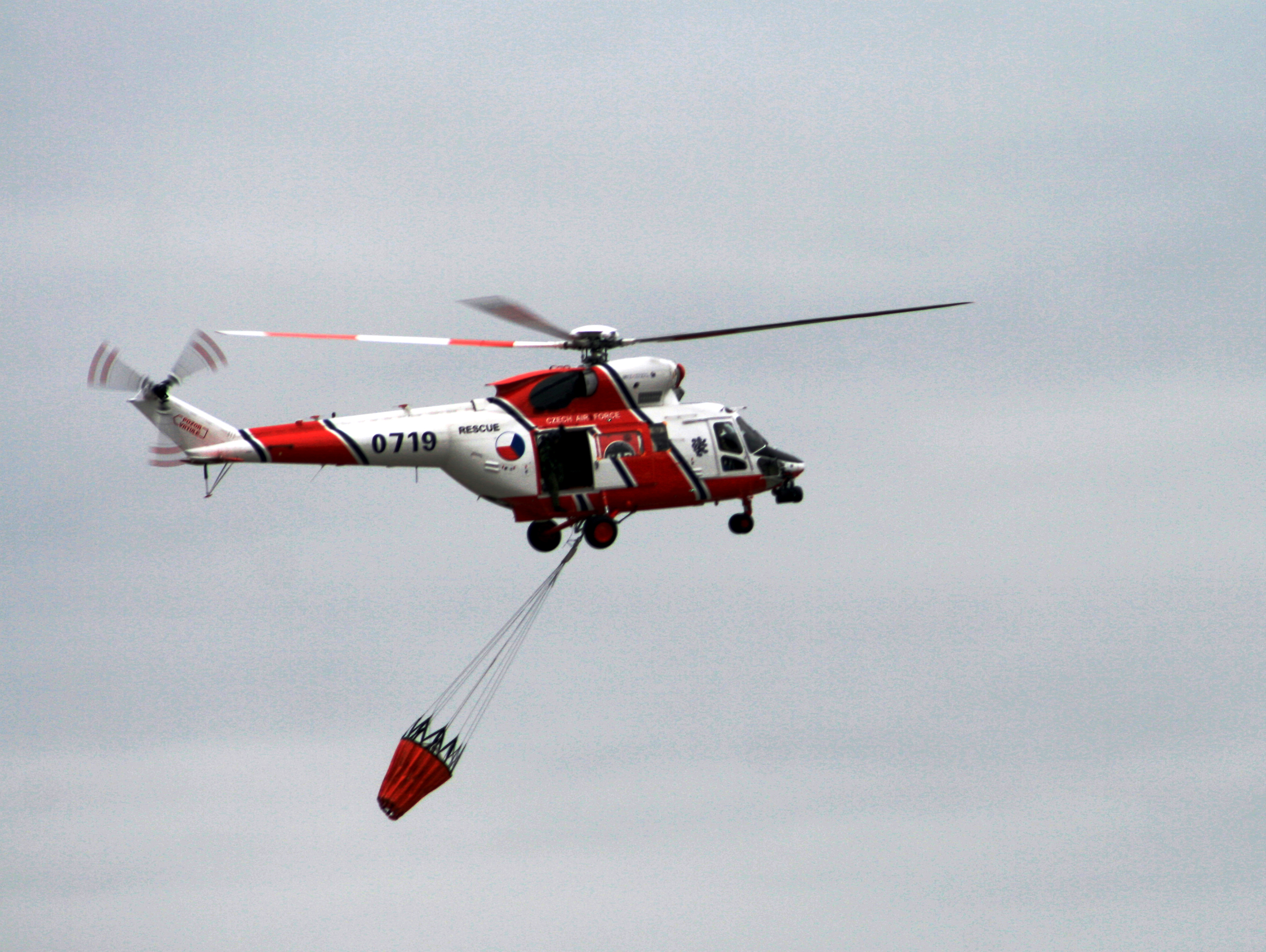 Helicopter PZL W-3A Sokol on Czech Air show CIAF 2009 in Hradec Králové, Czech Republic